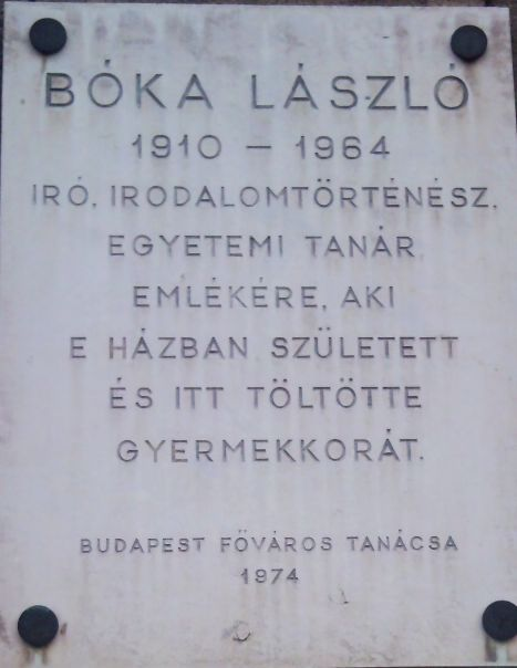 László Bóka commemorative plaque in Budapest District IX, Ipar Street No 15-21